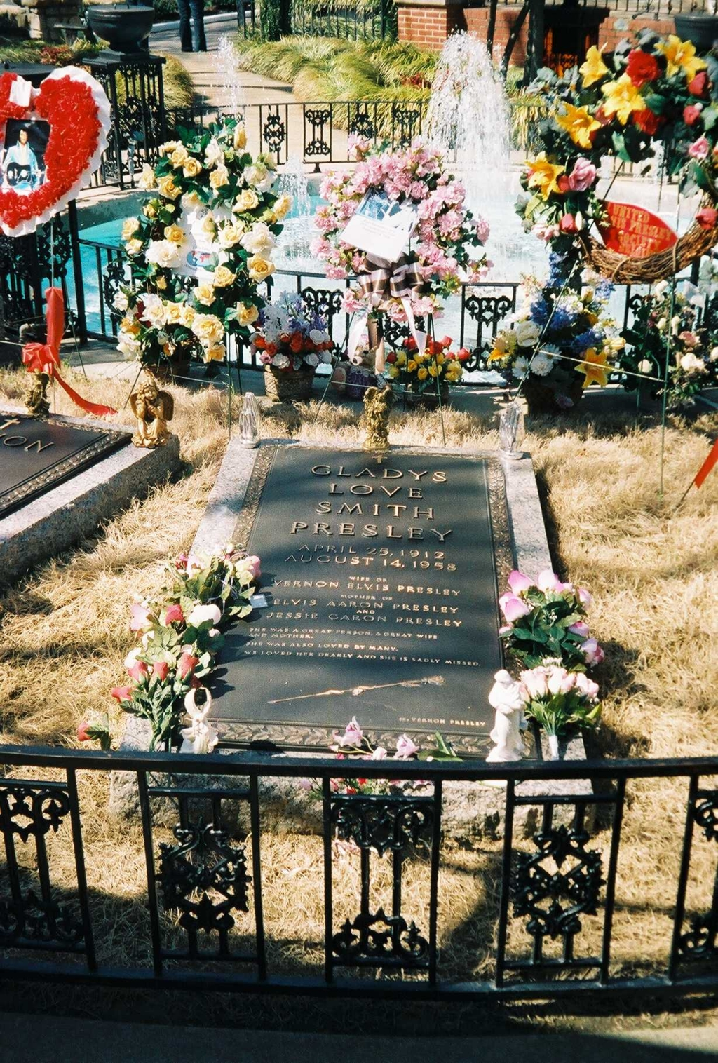 Graceland Cemetery at the Graceland Mansion on Elvis Presley Boulevard in Memphis, Tennessee. Grave of Gladys Love Smith Presley.